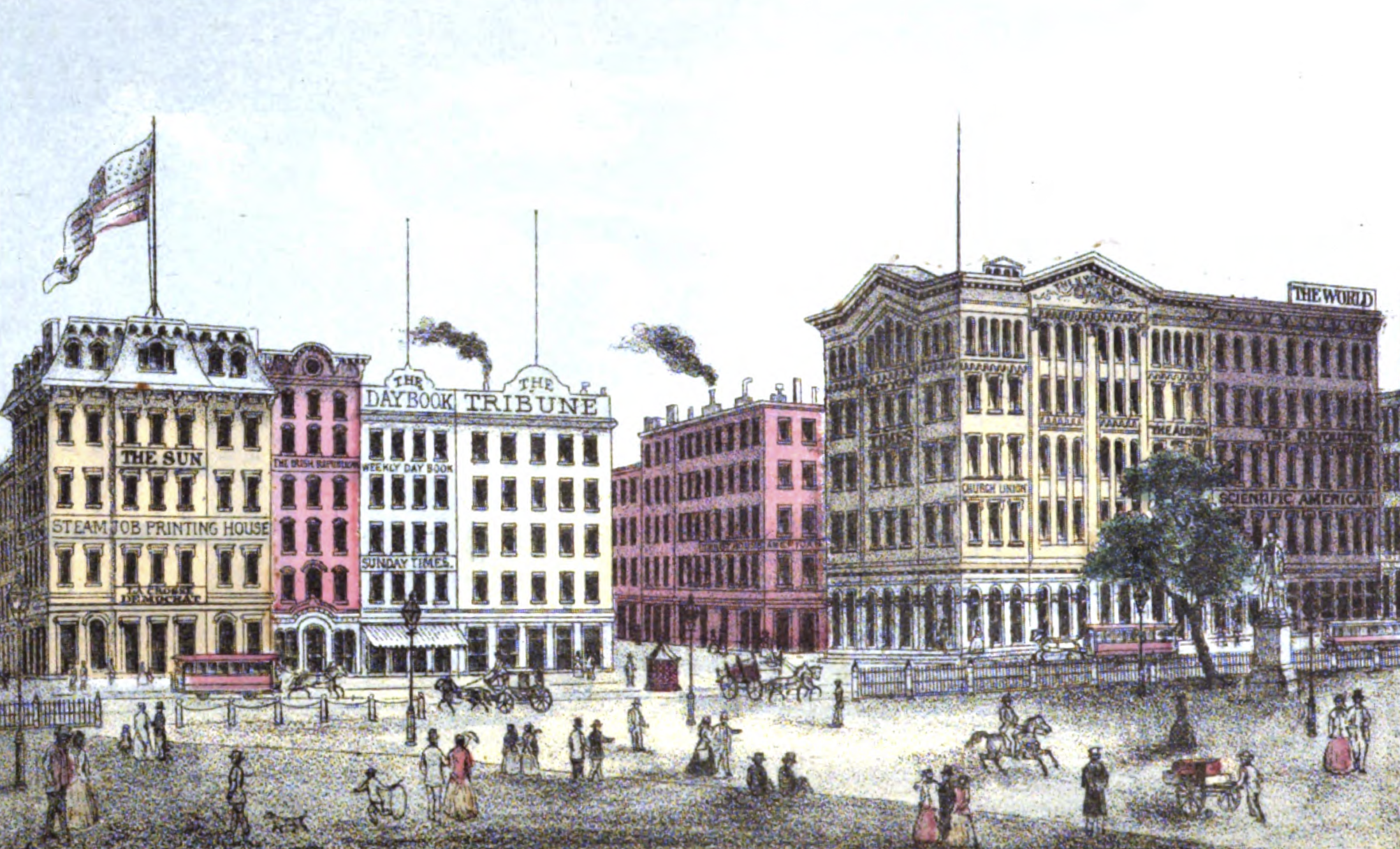 Caption reads: "PRINTING HOUSE SQUARE 1868." Credit reads: "LITH. W. C. ROGERS & CO. FOR JOS. SHANNON'S MANUAL 1868." At the far right is the sign for The Revolution, the newspaper established by Susan B. Anthony and Elizabeth Cady Stanton in 1868.[1] It is below the sign for The World and above the sign for Scientific American. The location, 37 Park Row, is now a part of the Women's Rights Historic Sites and is marked with a sign designating it as "Susan B. Anthony and Elizabeth Cady Stanton Corner."[2] References ↑ Ward, Geoffrey C. Not for Ourselves Alone: The Story of Elizabeth Cady Stanton and Susan B. Anthony, pp. 111-113. Alfred A. Knopf, New York, 1999. ISBN 0-375-40560-7. ↑ Revolution, the feminist periodical by Breanne Scanlon